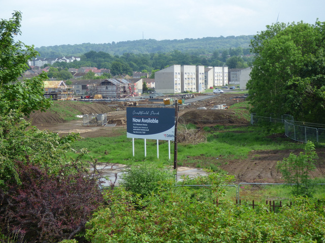 Former Spittal Sports Ground